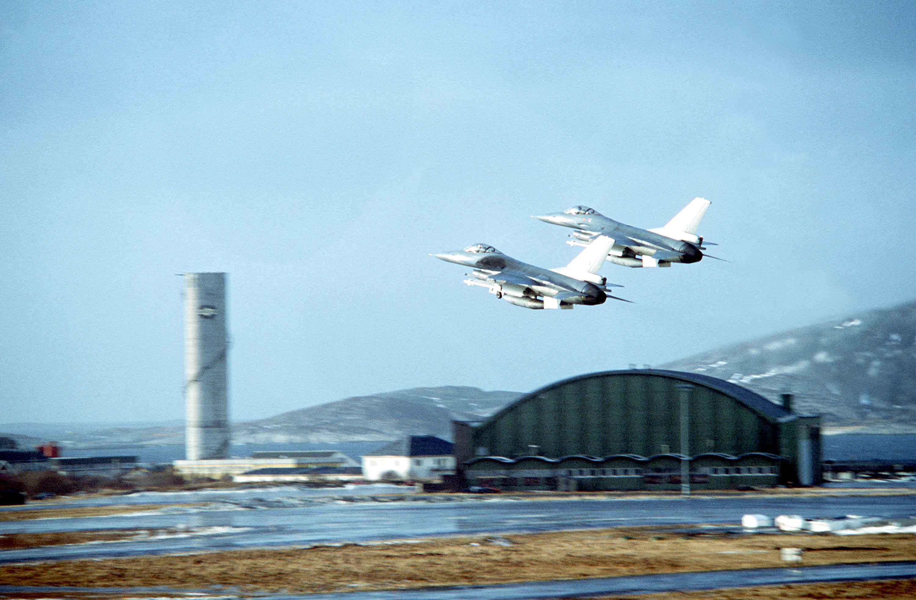 Two Norwegian F-16A Fighting Falcon aircraft take off together in support of exercise Alloy Express. In the background is a Norwegian aircraft hangar.